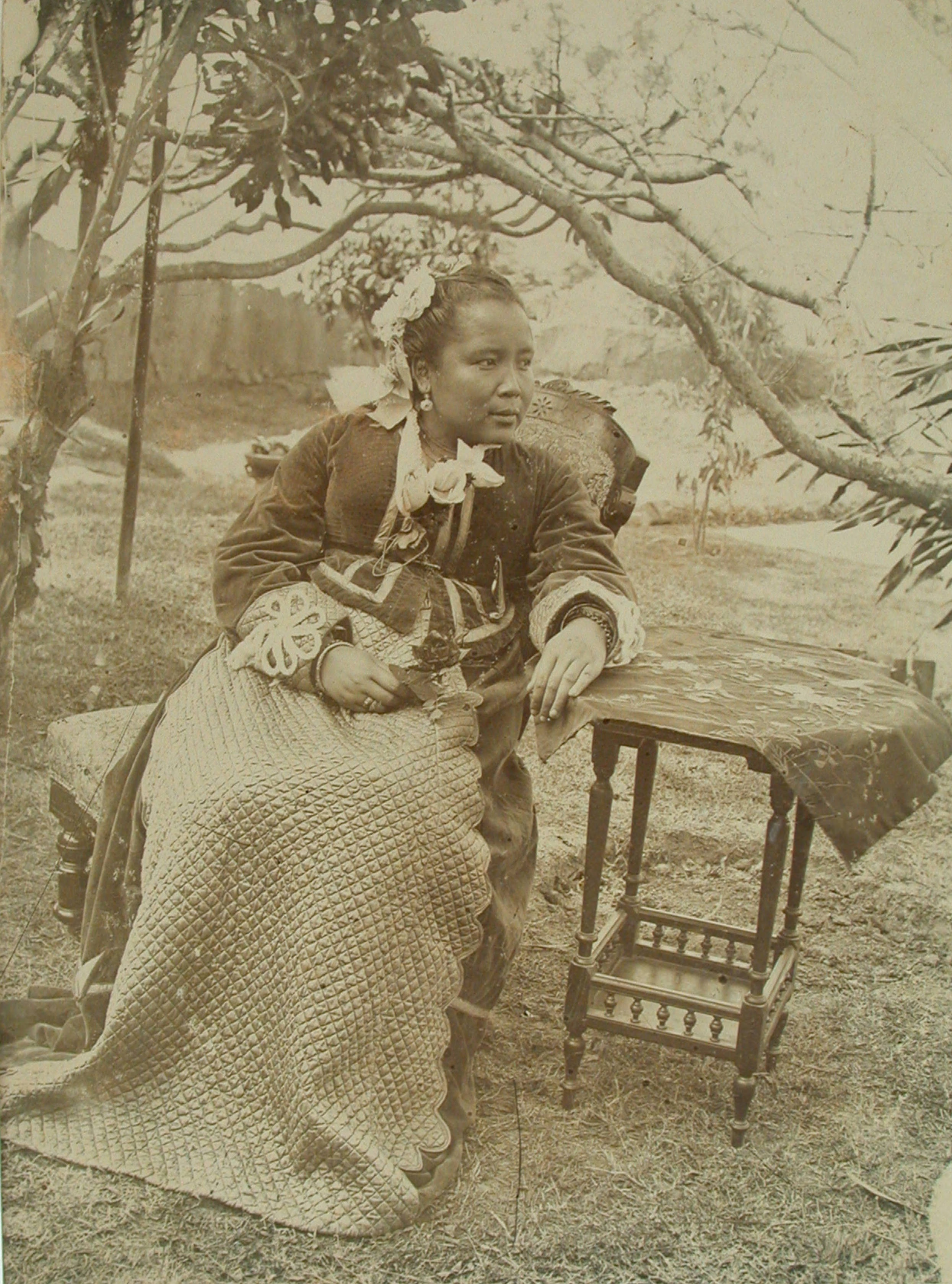 Princess Ramasindrazana pr Ramasindrazana was Queen Ranavalona III's aunt. The Queen was exiled in 1897 following the French occupation and Princess Ramasindrazana joined her in exile. The Queen died in Algeria in 1917. See Christian Borchgrevink's "4 Foredrag" ("4 lectures"), page 130.